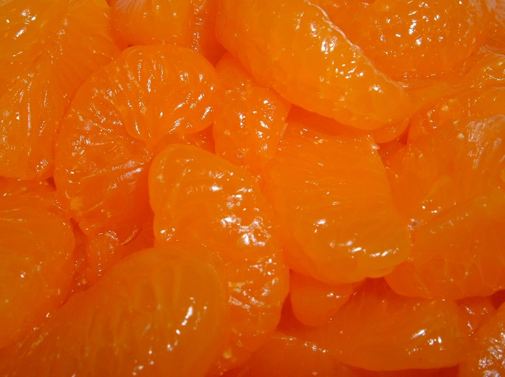 "Mandarin orange segments in light syrup" (syrup removed) - Publix brand